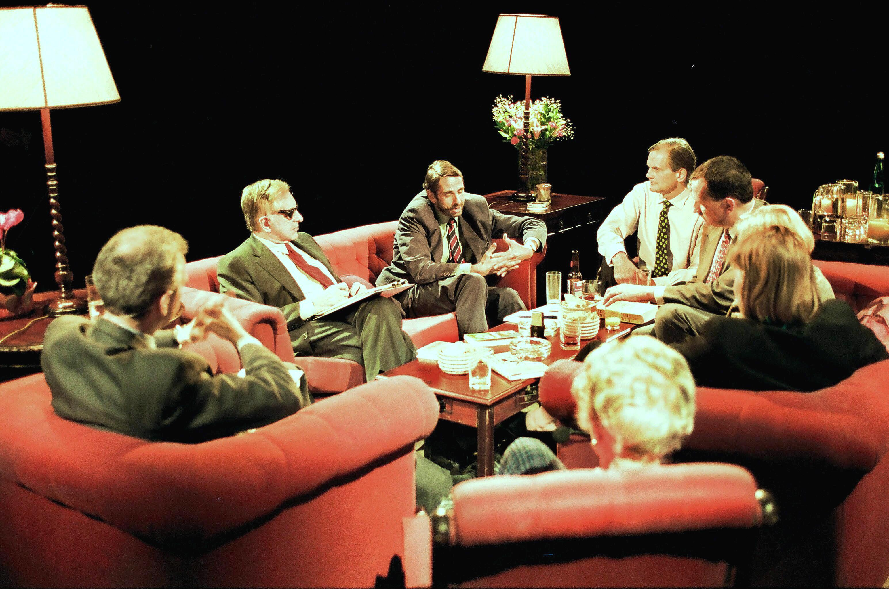 Television programme After Dark on 1 November 1997 with that evening's host John Underwood (back to camera, left) and guests, from left, Bernard Nathanson, John Harris, John Parsons, Gerard Casey, Fay Weldon, Sarah Walsh and Dame Josephine Barnes